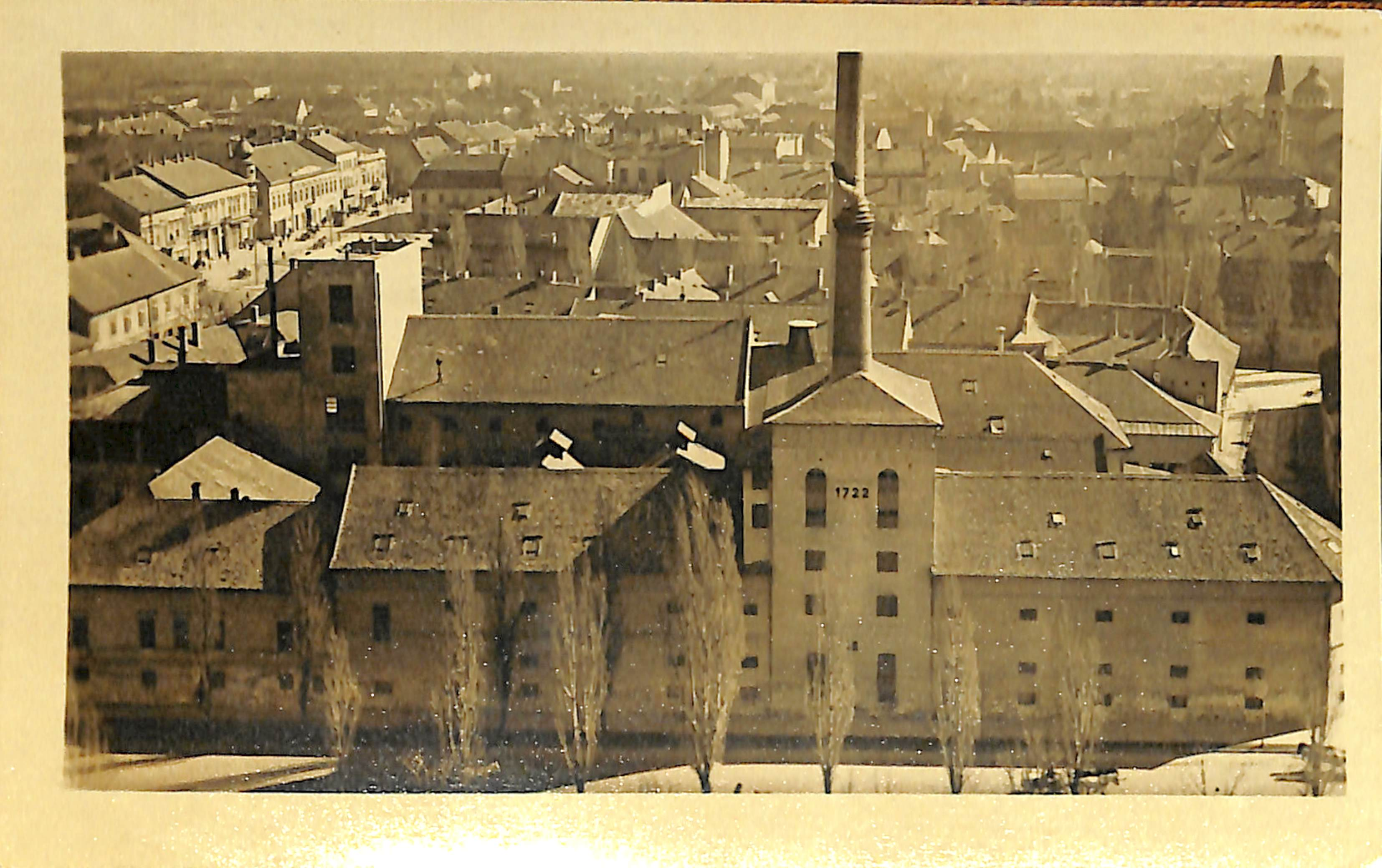 George Weifert brewery in Pancevo